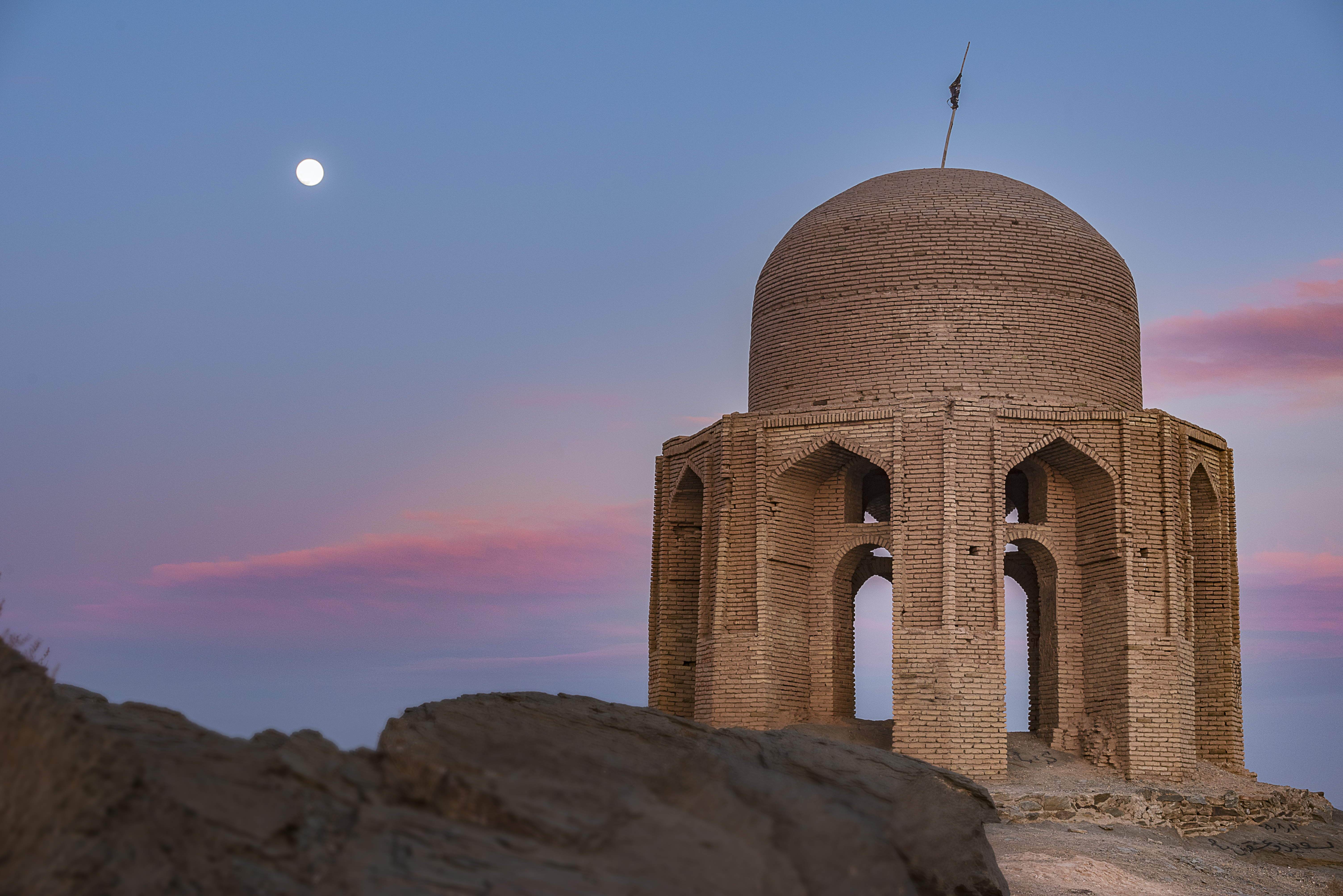 Shah Firooz Tomb in Sirjan, 2018